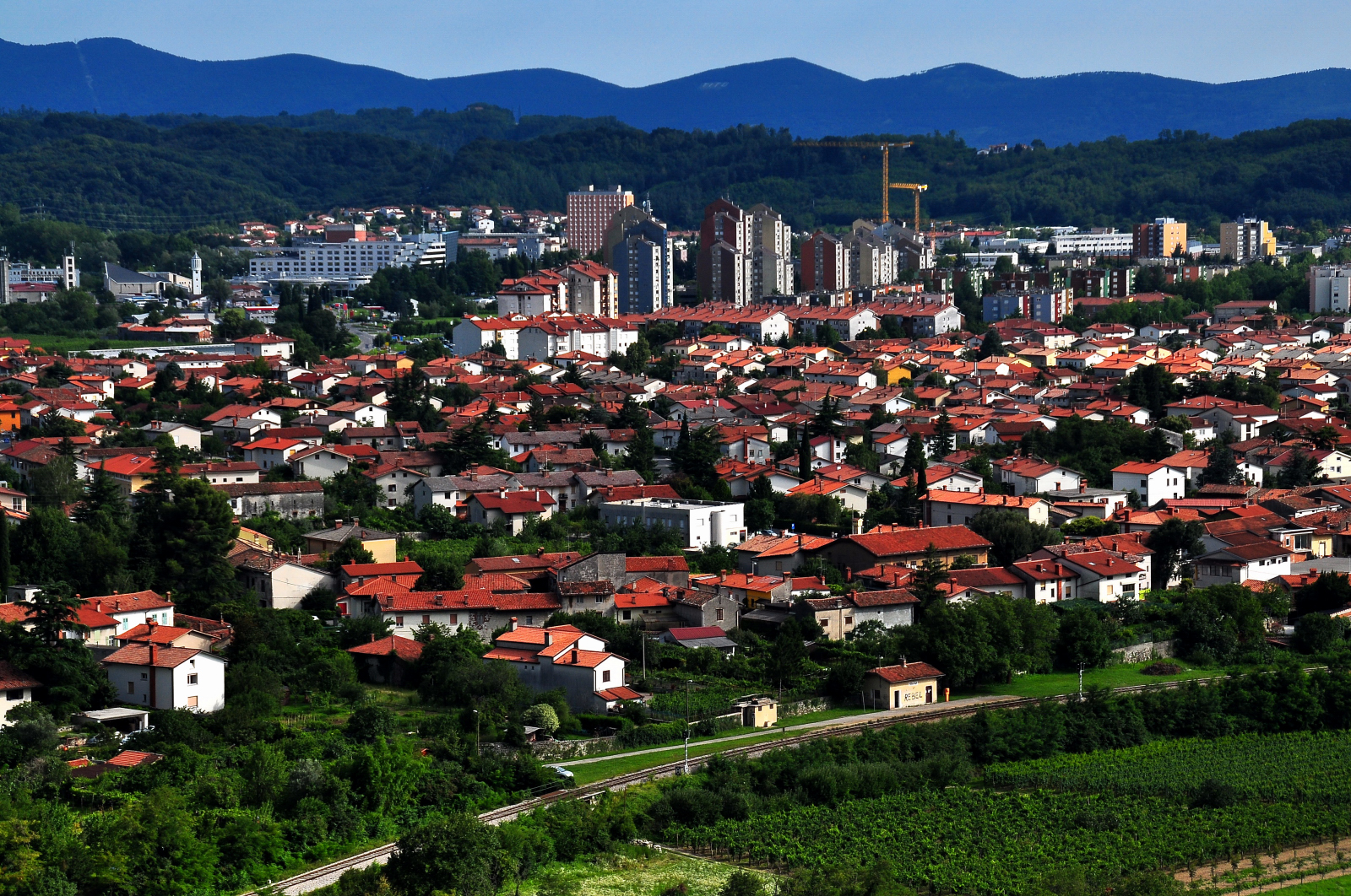 Nova Gorica, Primorska, Slovenia